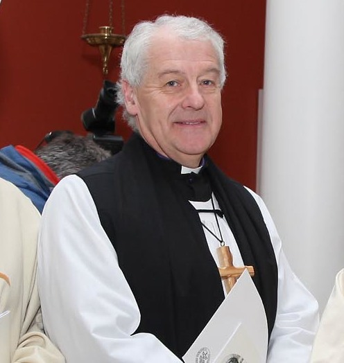 Michael Jackson, Anglican Archbishop of Dublin (centre); Eamon Martin, Catholic Archbishop of Armagh (second left); Diarmuid Martin, Catholic Archbishop of Dublin (far right)